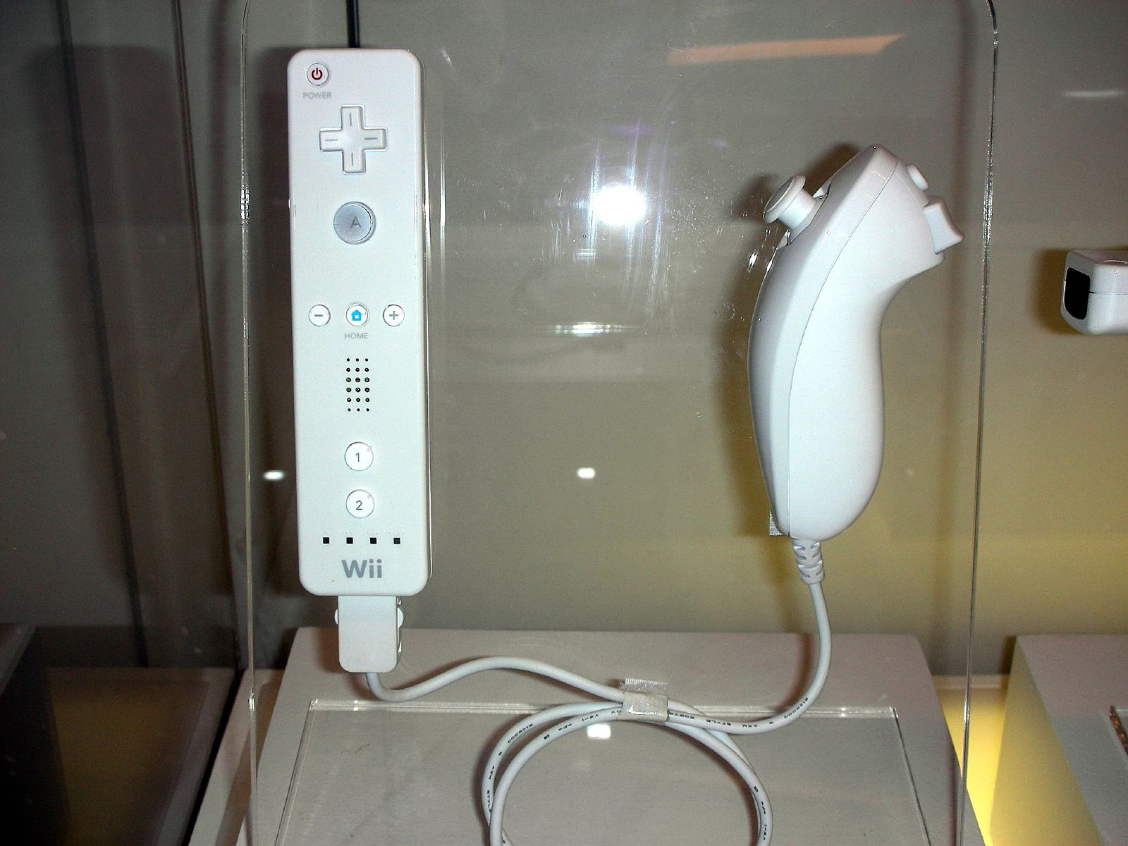 The controller adapted for two hands, with an analog joystick and two more buttons